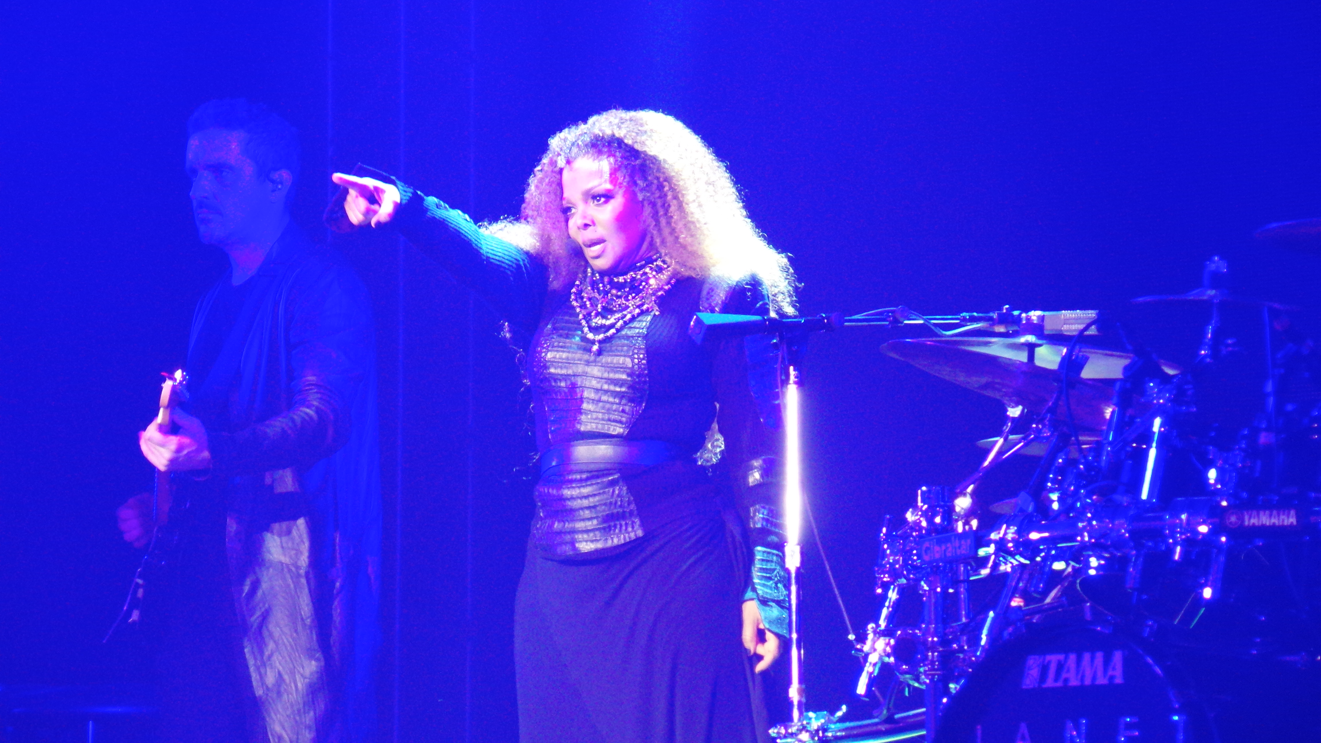 Janet Jackson Unbreakable Tour, Honolulu, Hawaii 2015